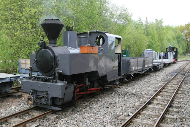 Apedale Valley light Railway - WWI locomotive, which was built in 1916 by Kerr Stuart in Stoke-on-Trent for the French Commission for their artillery railways and delivered to Nantes. It supported operations during WWI and was afterwards used at a stone quarry in the Pas de Calais. Kerr Stuart built 70 of these Joffre or Decauville class 0-6-0 tank engines weighing 10.5 tons in working order.